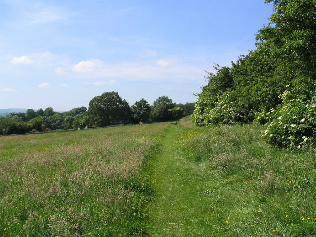 Leeds Country Way near Horsforth, Leeds, West Yorkshire, England